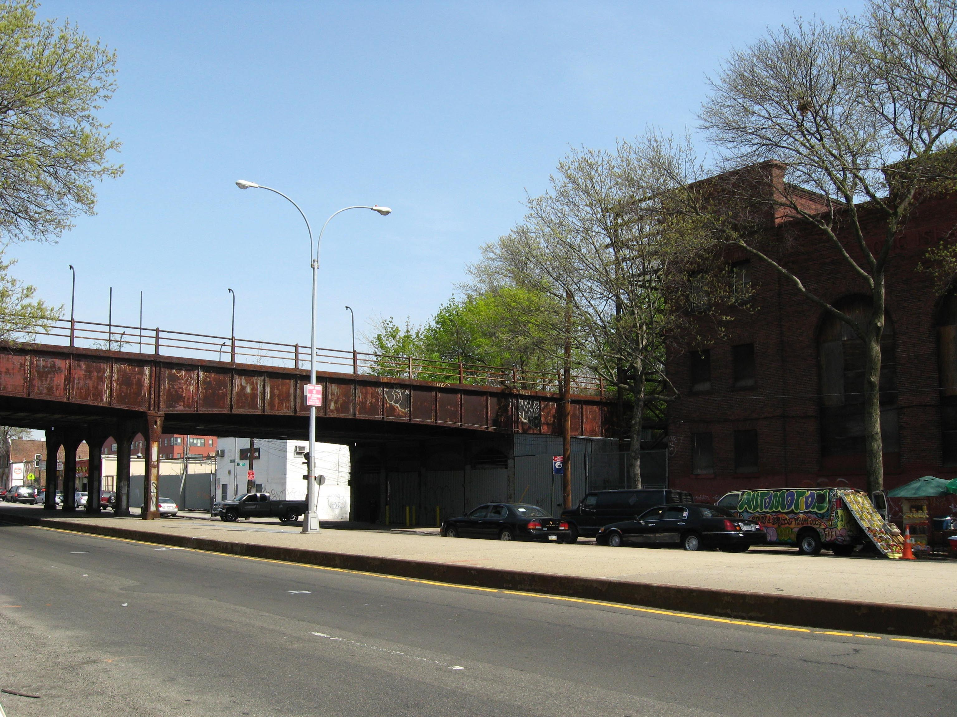 Woodhaven Junction (LIRR station) overpass and power station, looking southeast across Atlantic Avenue (New York City) on a sunny afternoon of springtime.